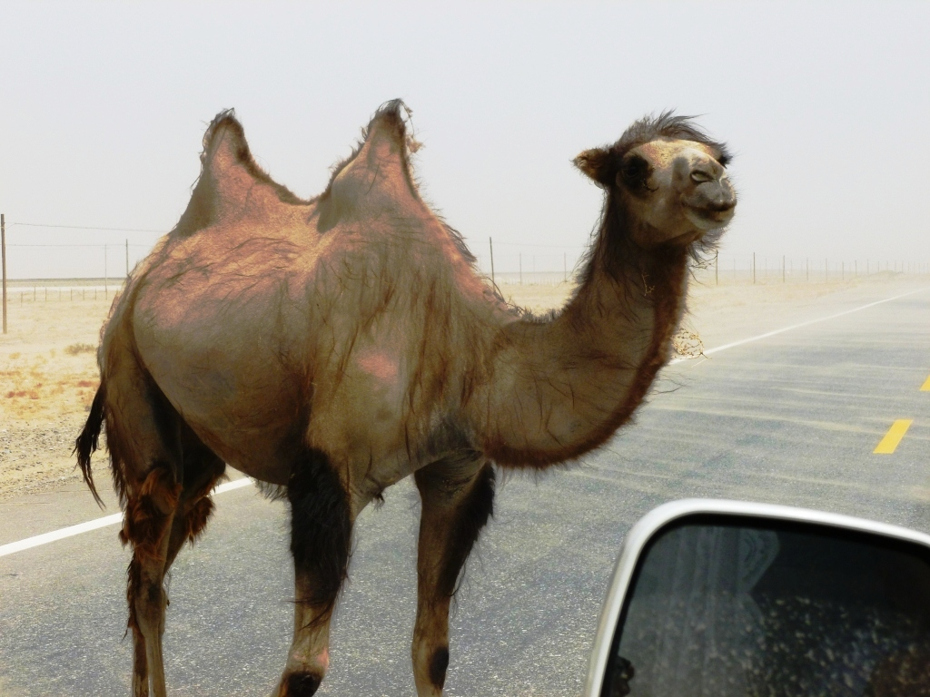 I took this photo on a trip along the Southern Silk Road between Yarkand and Khotan.